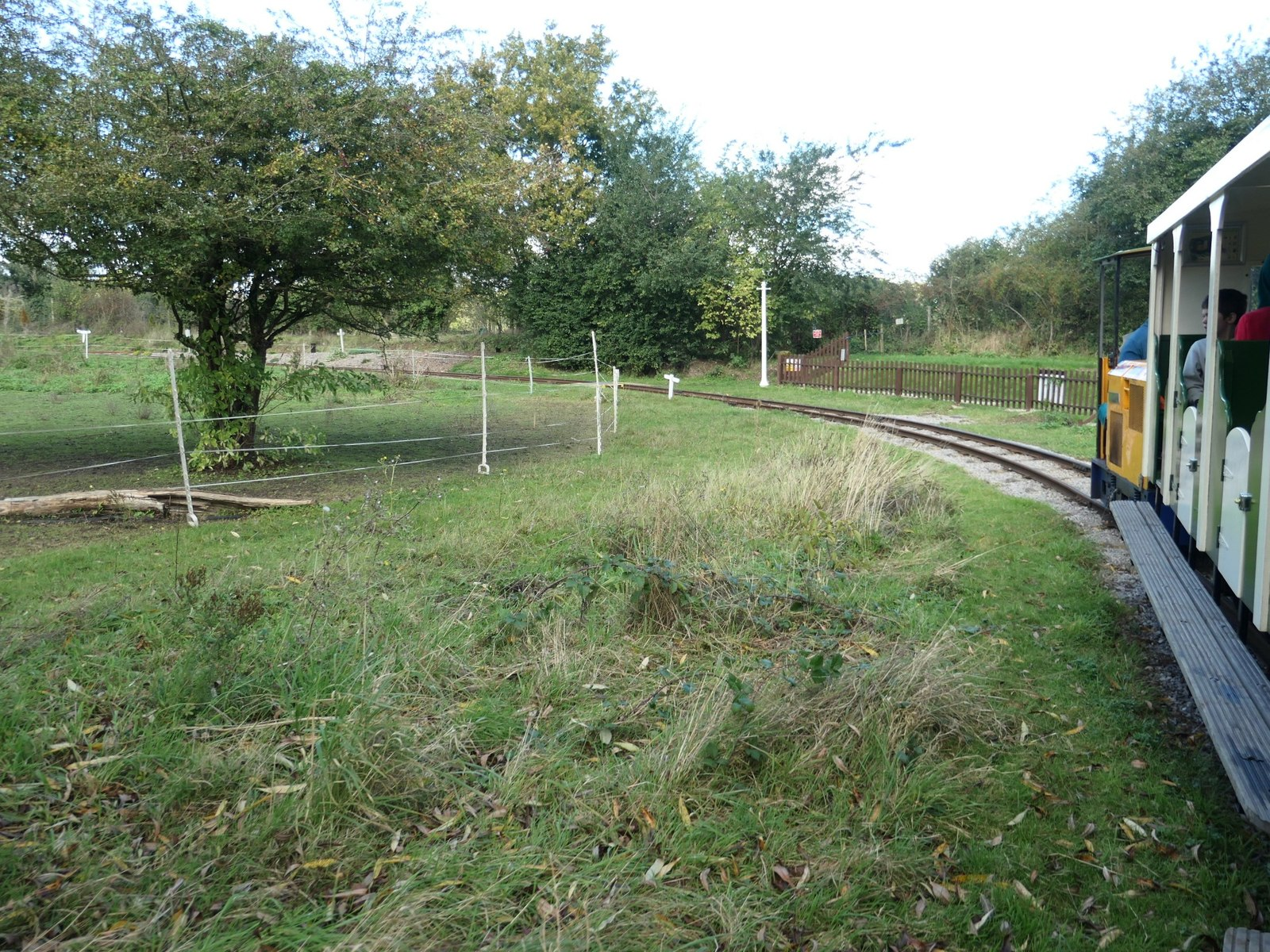 Hampton & Kempton Waterworks Railway, Hanworth Loop [1]